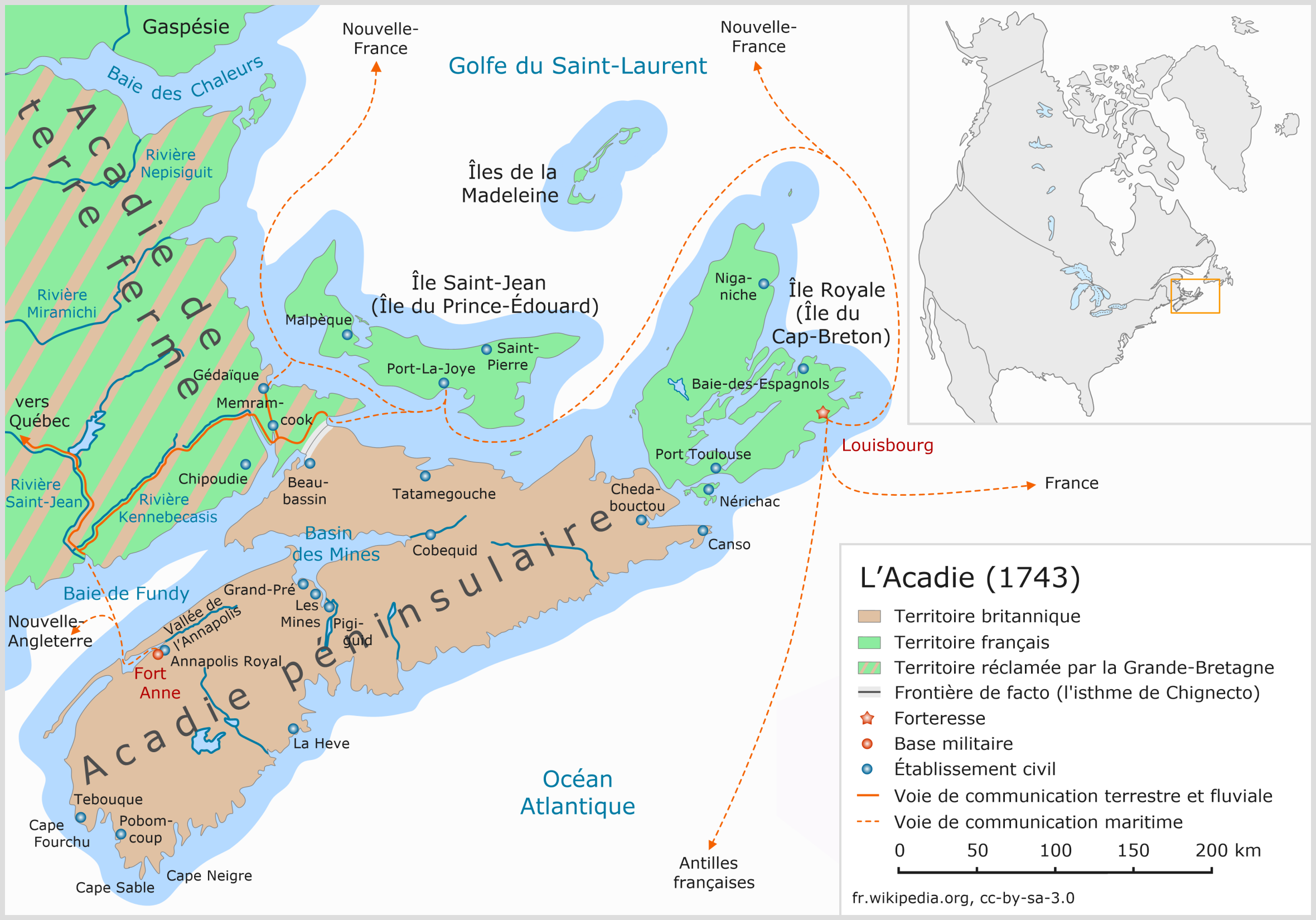 Acadia (1743)